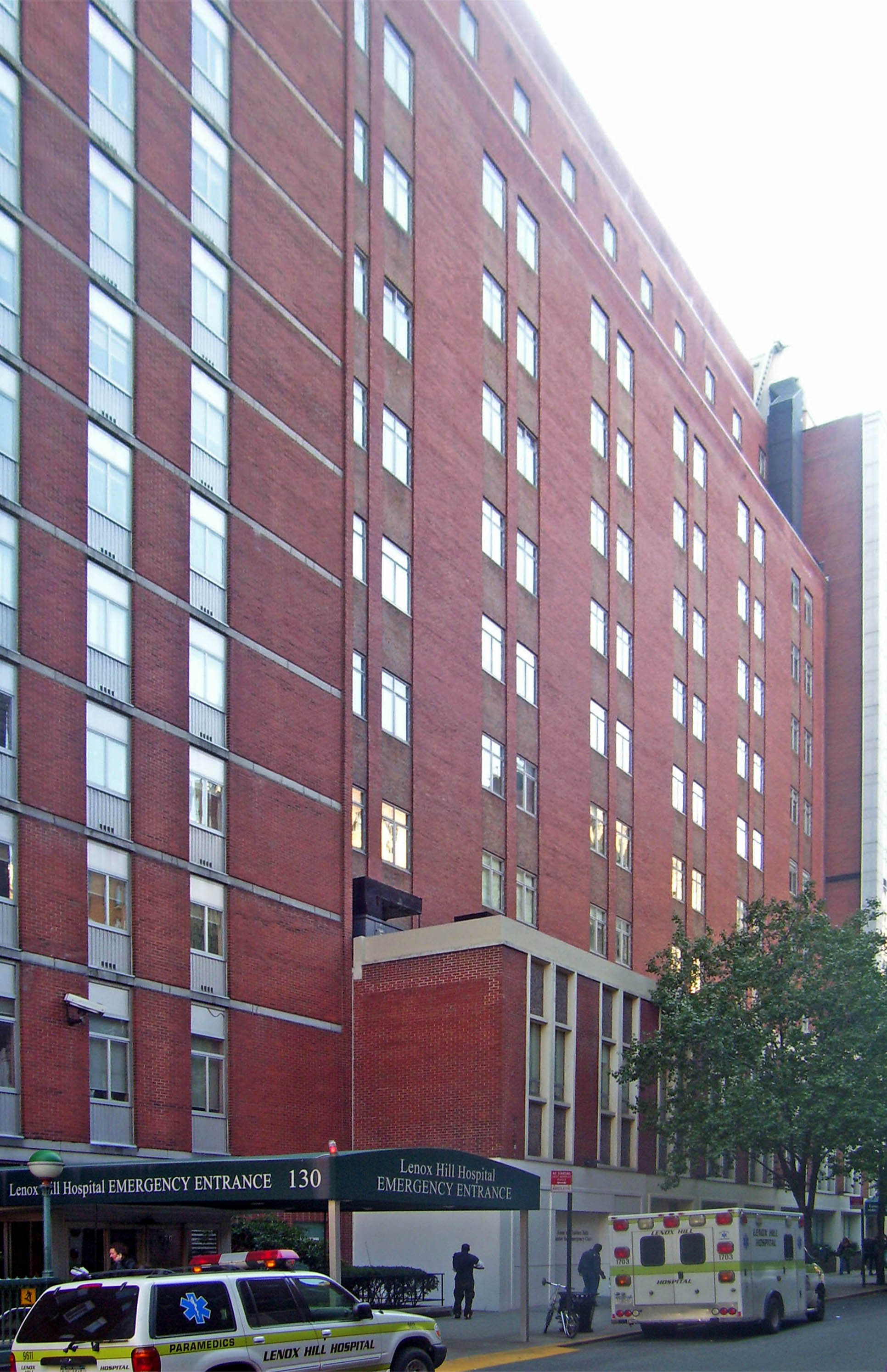 North facade and entrance of Lenox Hill Hospital, New York City